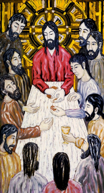 The Last Supper (St John Passion - 01)